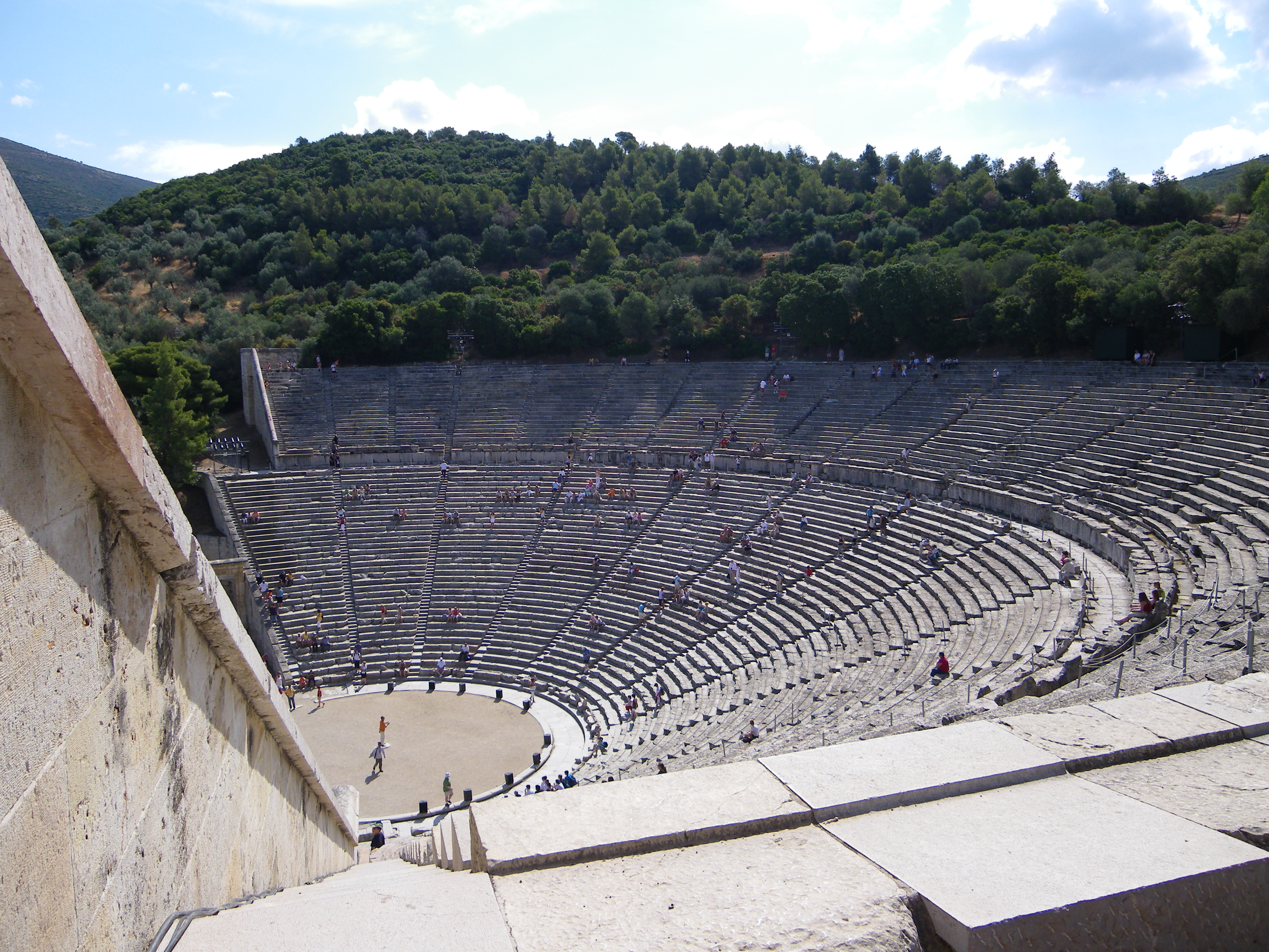 Ancient Theater of Asclepius Epidaurus reception angle 1«Αρχαίο θέατρο Ασκληπιείου Επιδαύρου»